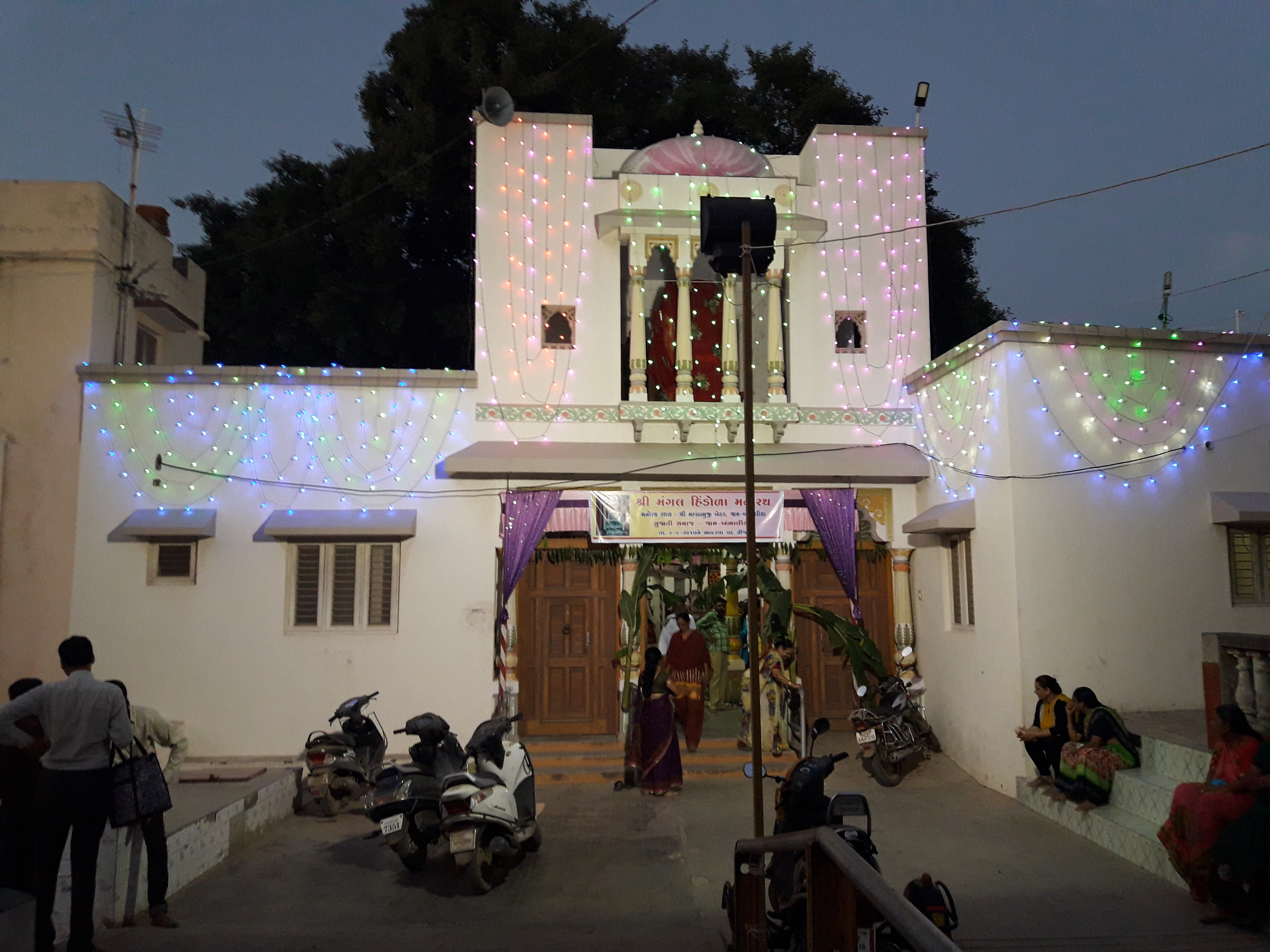 Mahaprabhuji Bethak in Jam Khambhaliya, Gujarat